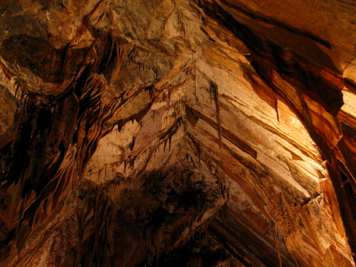 Naturally formed vaulted ceiling occurring in Gunns Plains Cave, Tasmania, Australia.